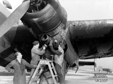 Three Australian groundcrew working on a No. 462 Squadron RAAF Halifax bomber in December 1944.